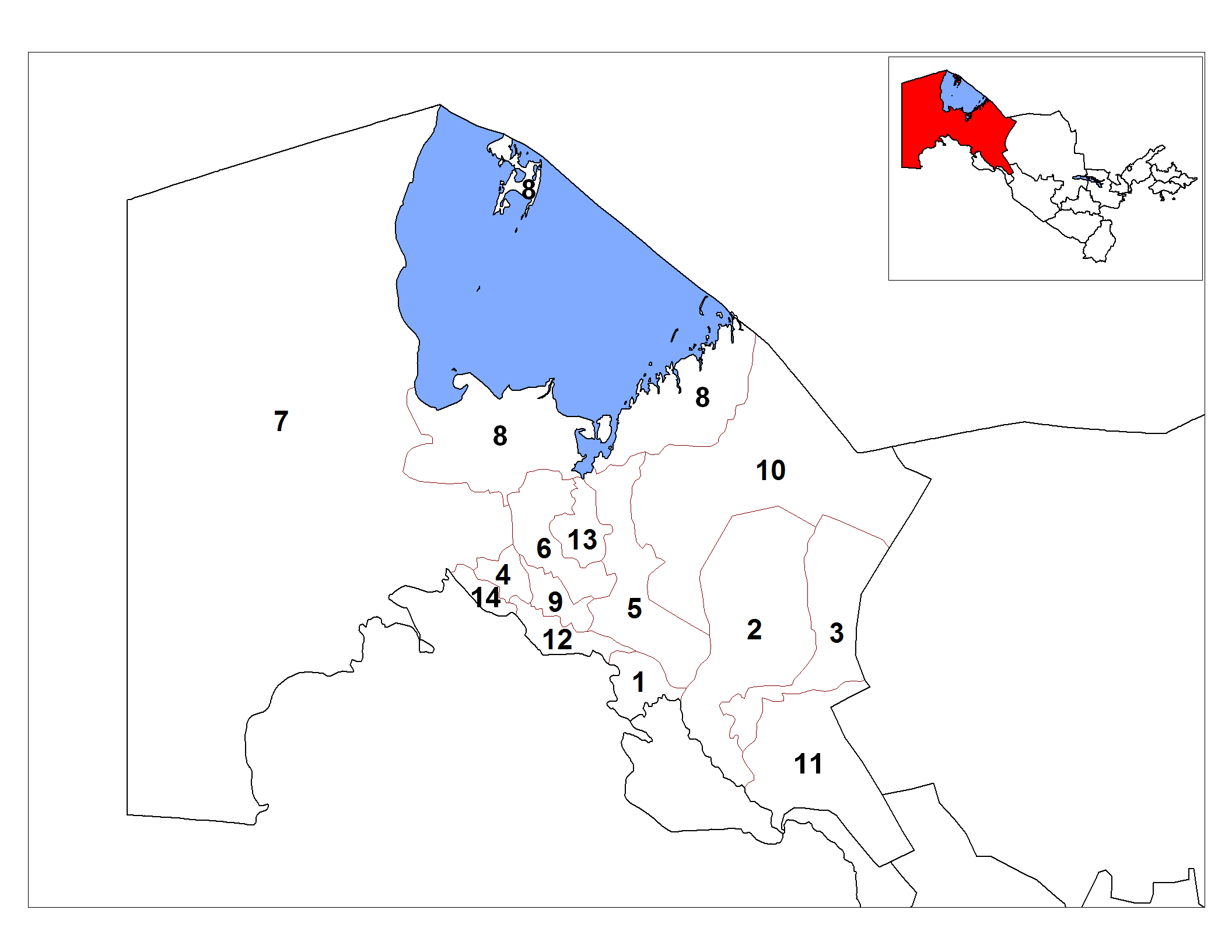 Map of the districts (tuman) of the Republic of Karakalpakstan in Uzbekistan.